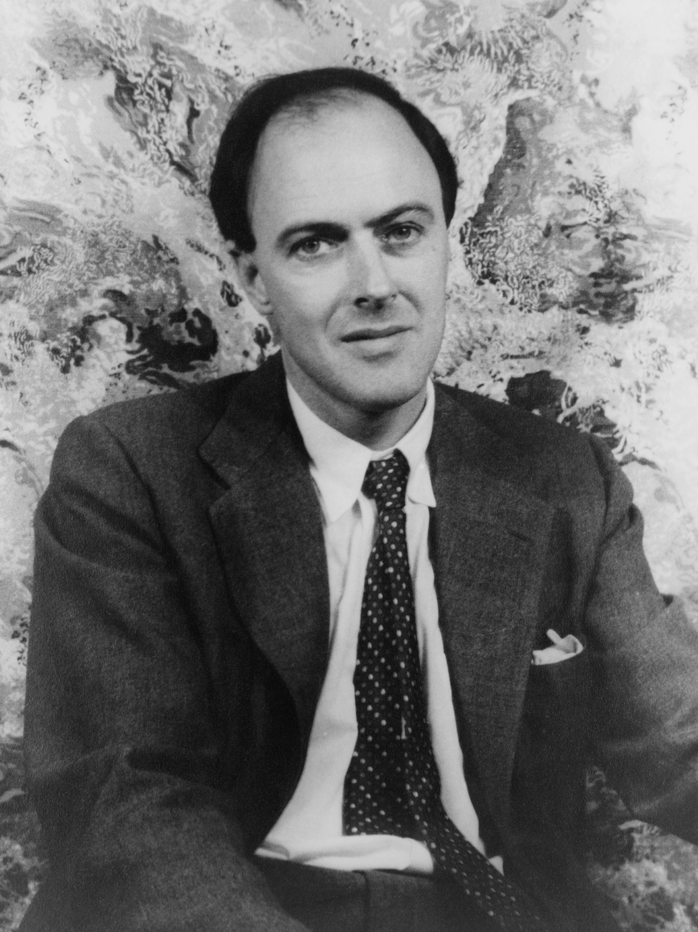 Portrait of Roald Dahl